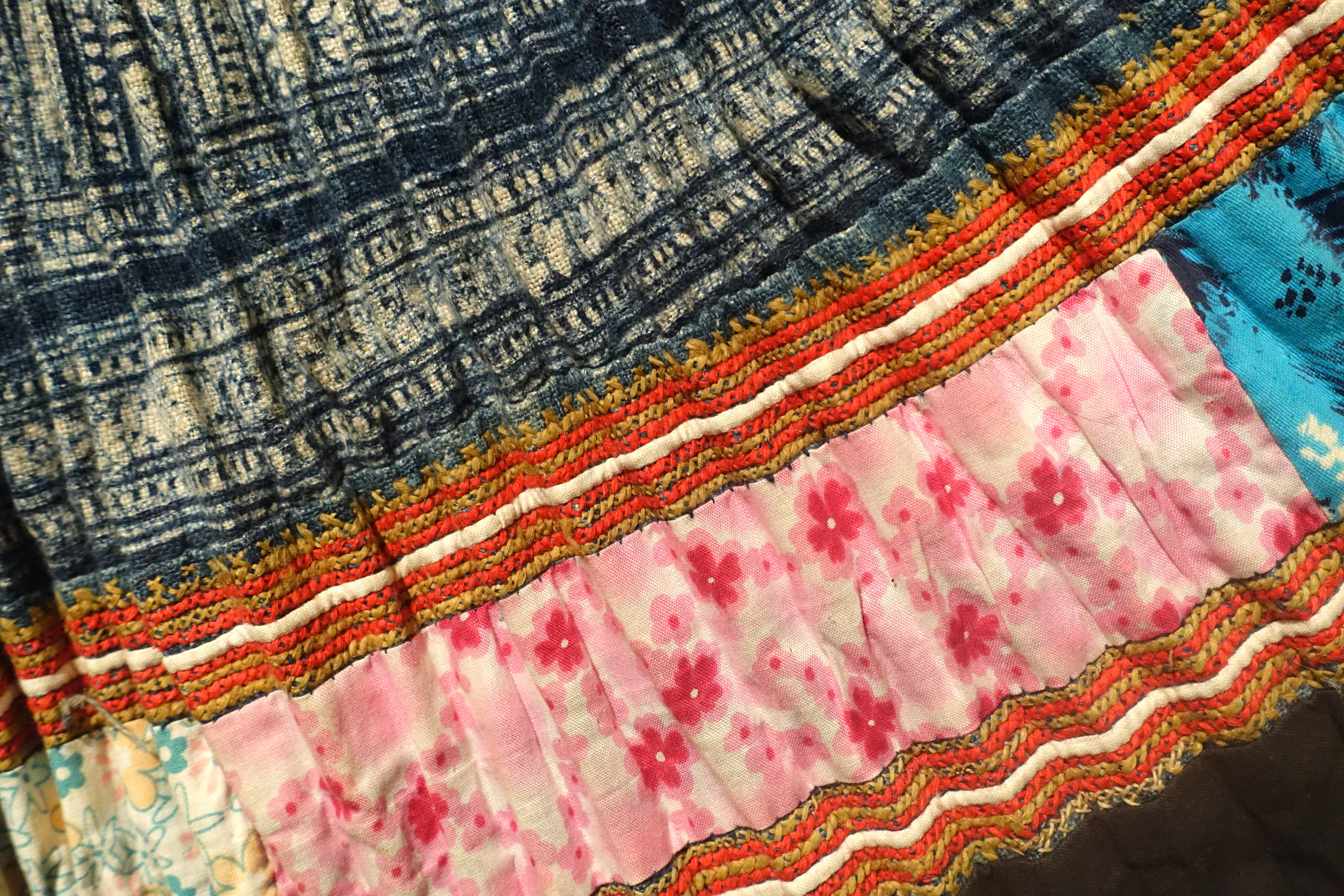 Exhibit in the Vietnamese Women's Museum, Hanoi, Vietnam.